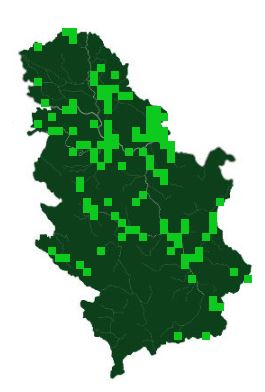 Rasprsotranjenje vrste u Srbiji (Alciphron)